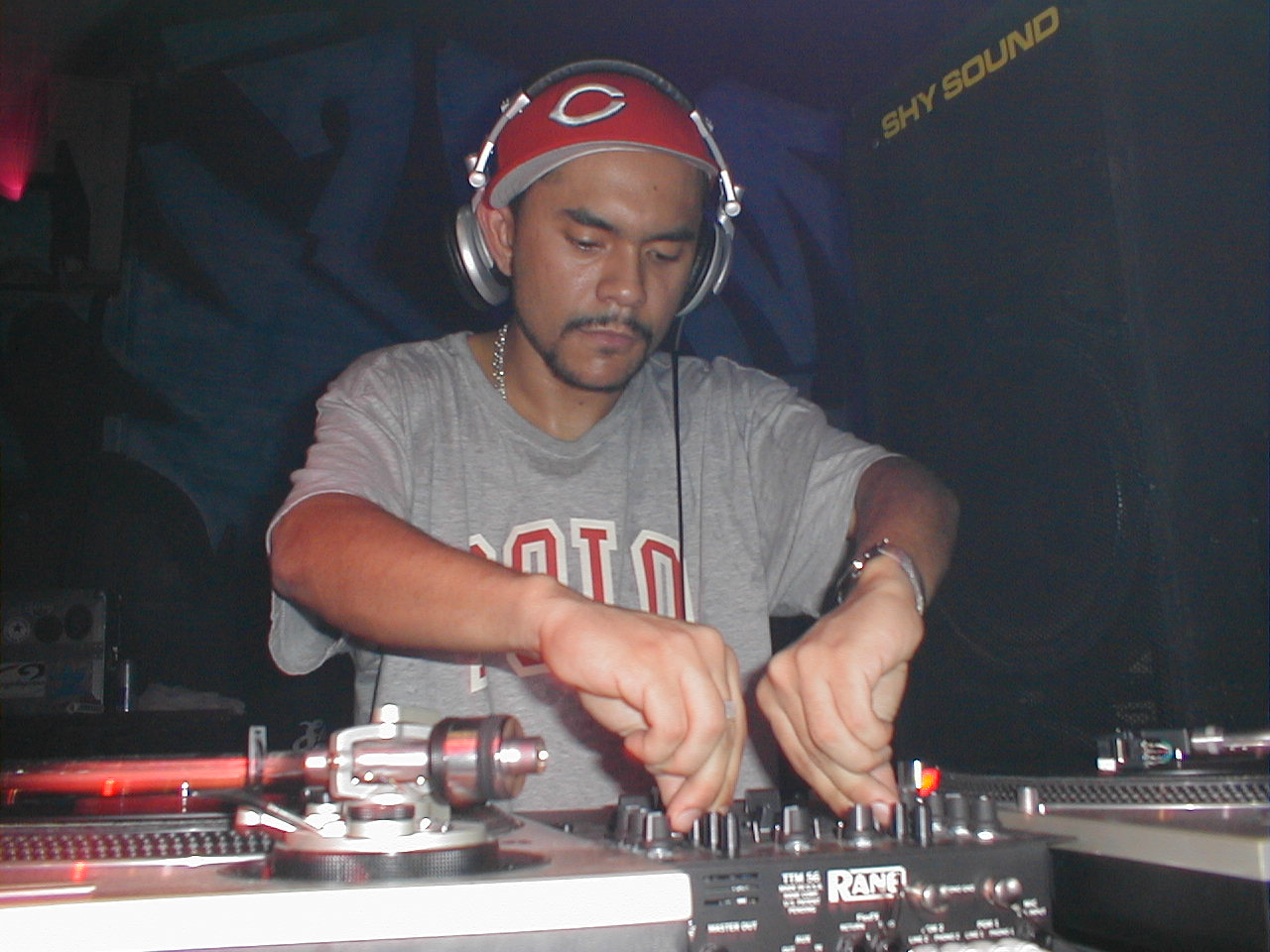 DJ Craze performs at True Luv 4 a rave in Springfield Massachusetts on 12-21-2002